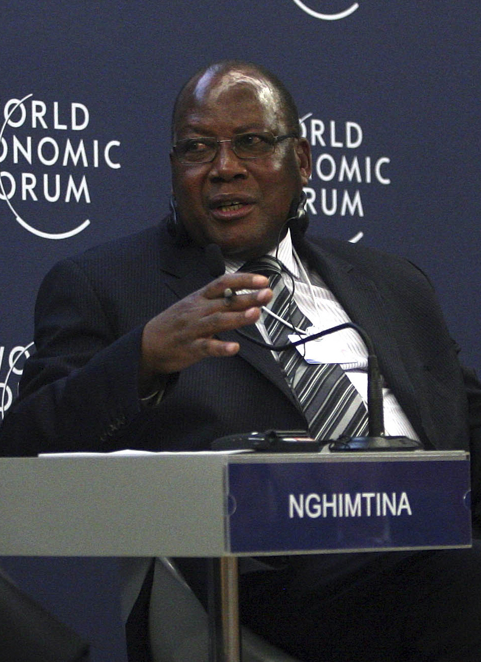 Erkki Nghimtina (centre), Minister of Works and Transport of Namibia with Kim Fejfer (left) and Wang Shusheng (right) at the Annual Meeting of the New Champions in Tianjin, China 2012